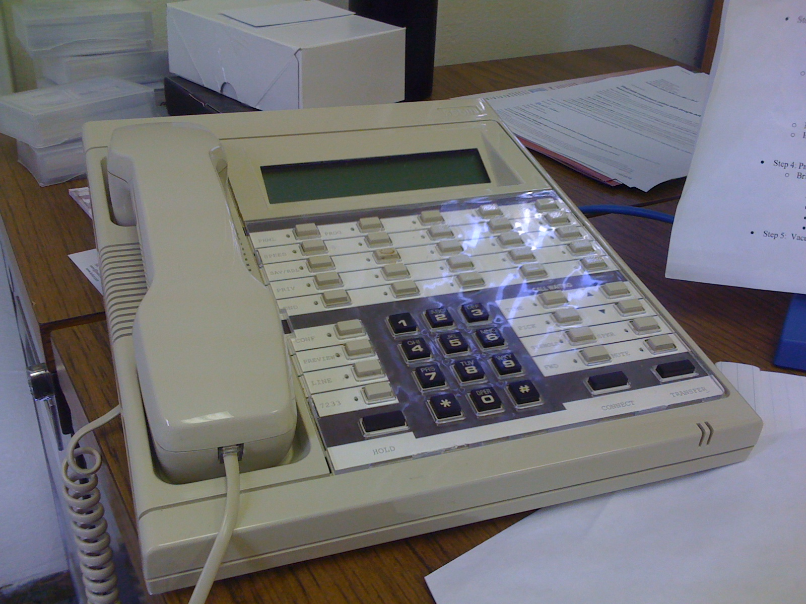 A RolmPhone 400, RP400, desk phone; with 38 buttons for feature/lines, there were 40, thus the name RP400, but the volume up and down buttons were not programmable.